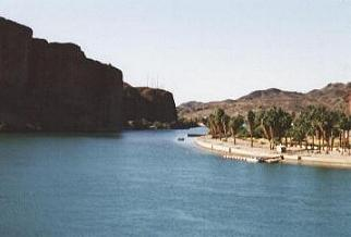 Colorado River behind Parker Dam